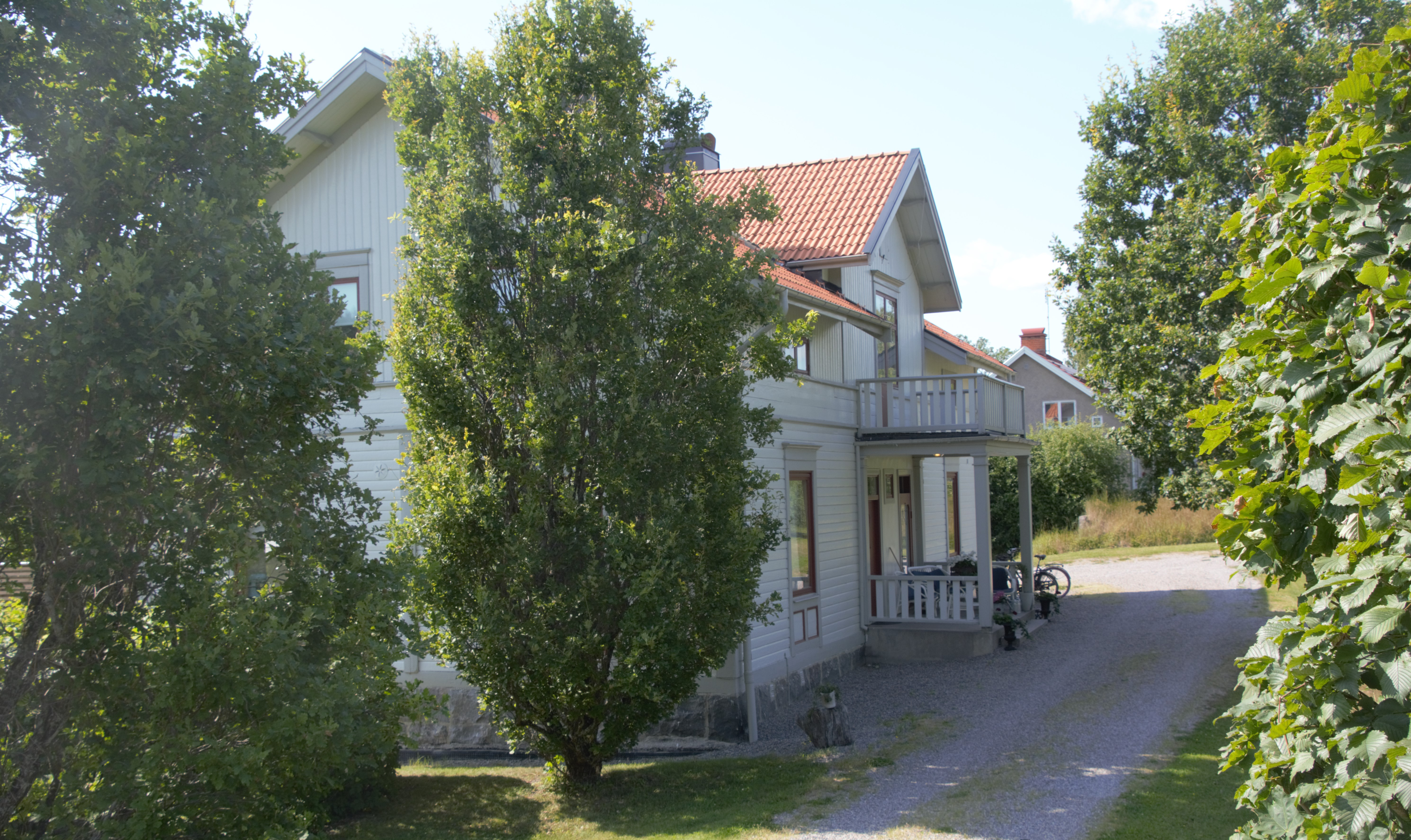 Earlier bank building of Daga härads sparbank (savings bank) at Björnlunda, Gnesta municipality